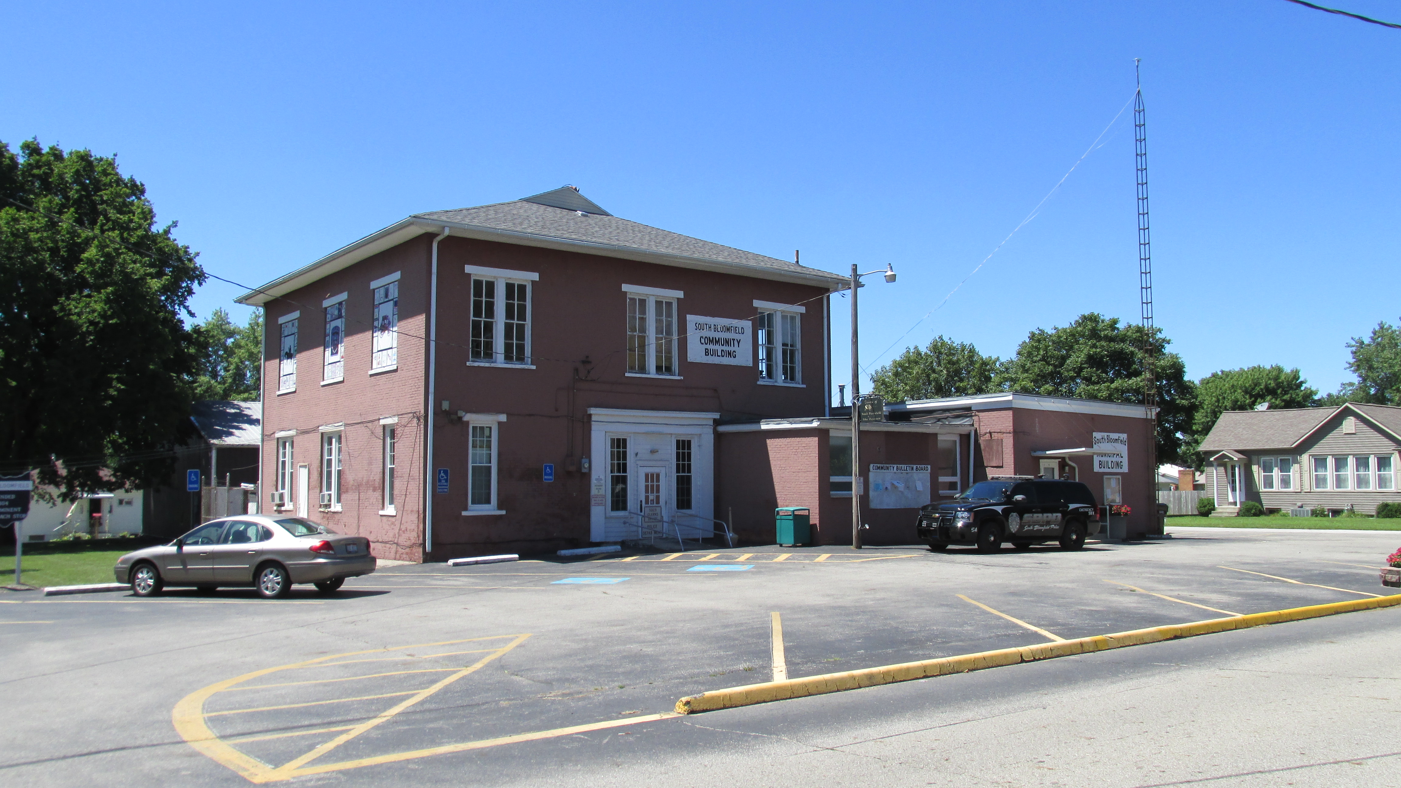 South Bloomfield Municipal Building.